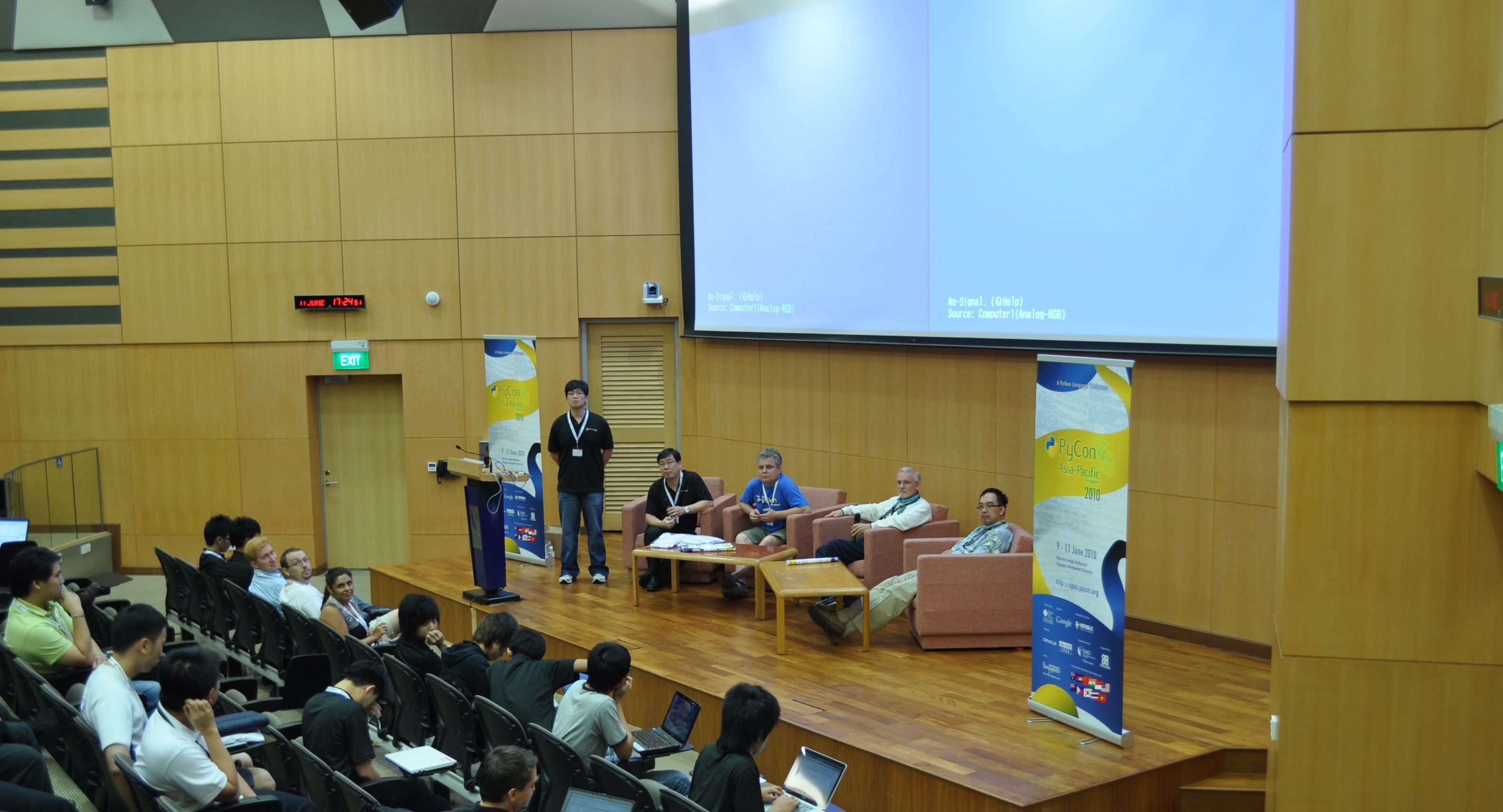 The closing panel of the Python Conference (PyCon) Asia Pacific held in the Ngee Ann Kongsi Auditorium, School of Accountancy and School of Law Building, Singapore Management University: (from left to right) Liew Beng Keat, Mark Hammond, Steve Holden and Wesley Chung. The brief discussion concerned where PyCon in the Asia-Pacific region might be going.